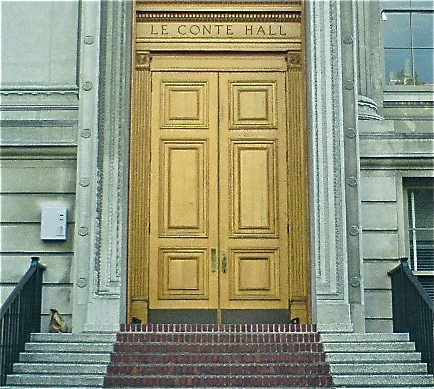 West door and steps of LeConte Hall